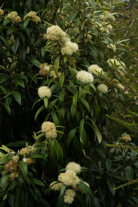 Australian native plant Cultivated